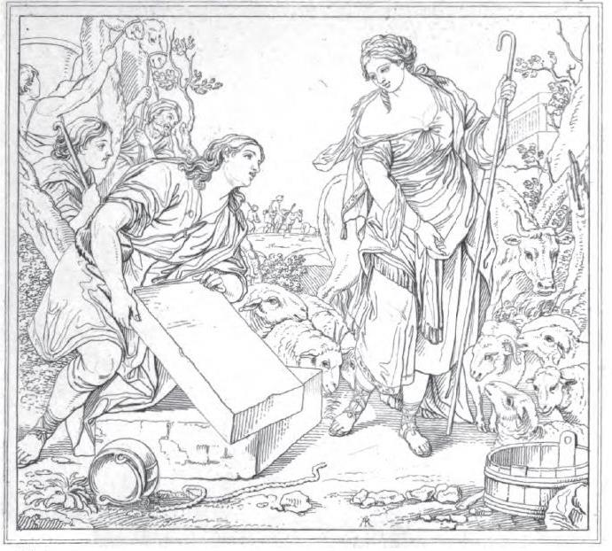 Jacob et Rachel près d'une fontaine (drawing of painting)